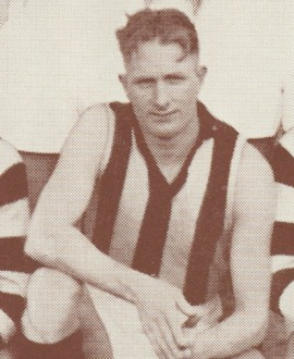 Photograph of Harry Jones from 1936-1938